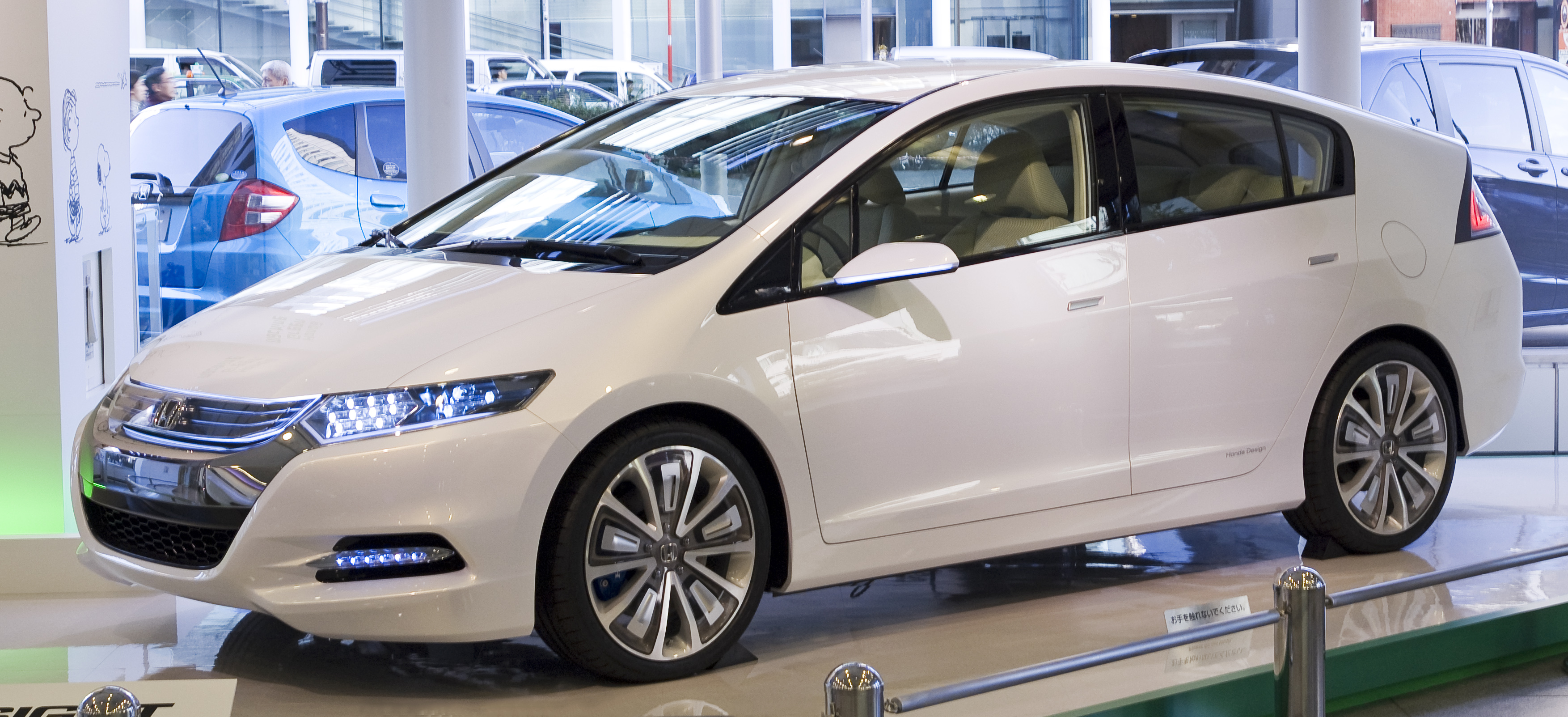 Honda Insight Concept photographed in Honda Welcome Plaza Aoyama